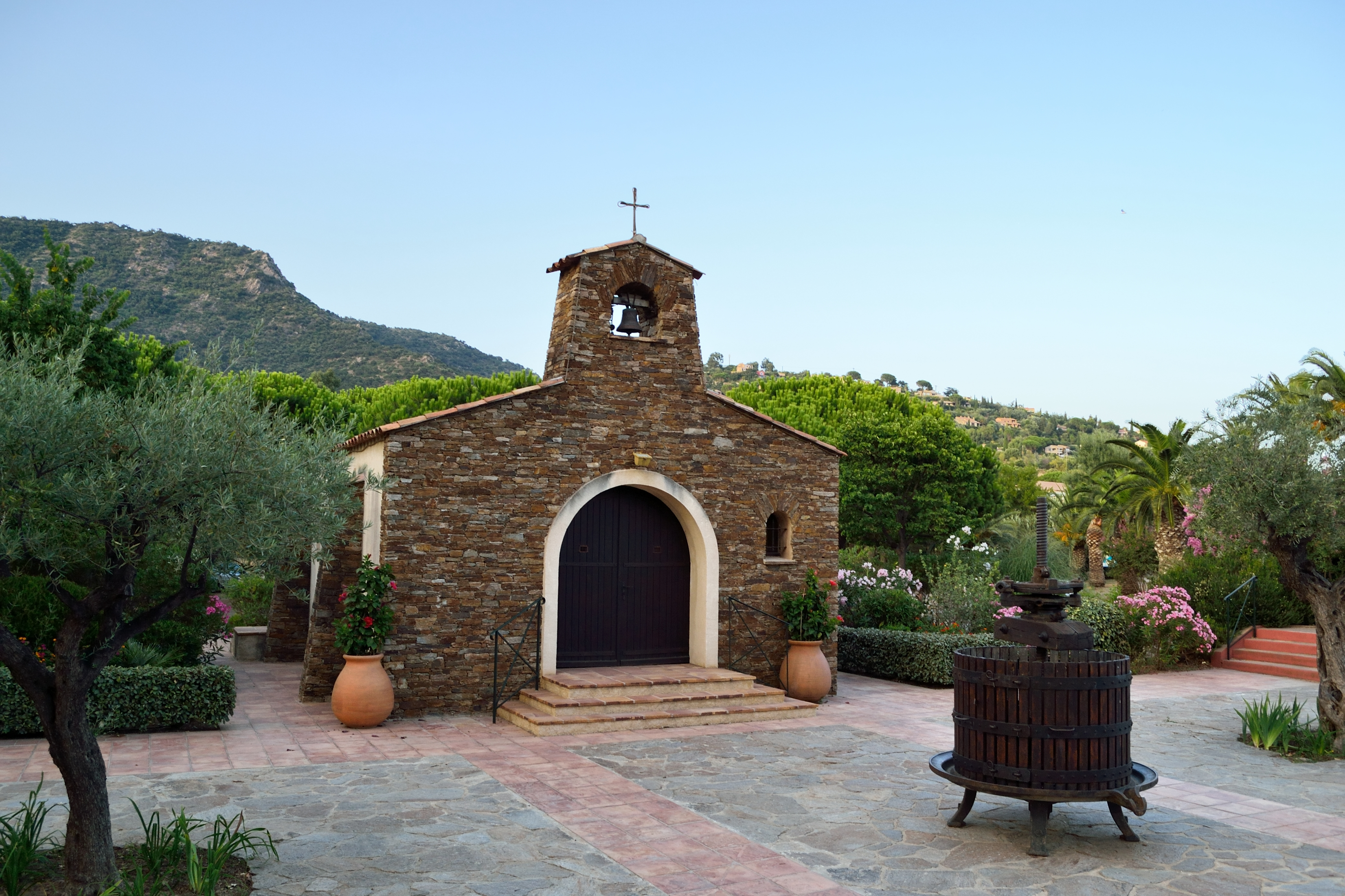 Saint-Clair chapel in Le Lavandou, France